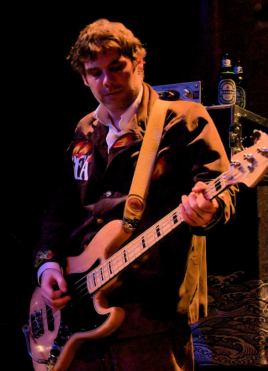 Guto Pryce performing with the Super Furry Animals at the Great American Music Hall, San Francisco, California on 9th February 2008.